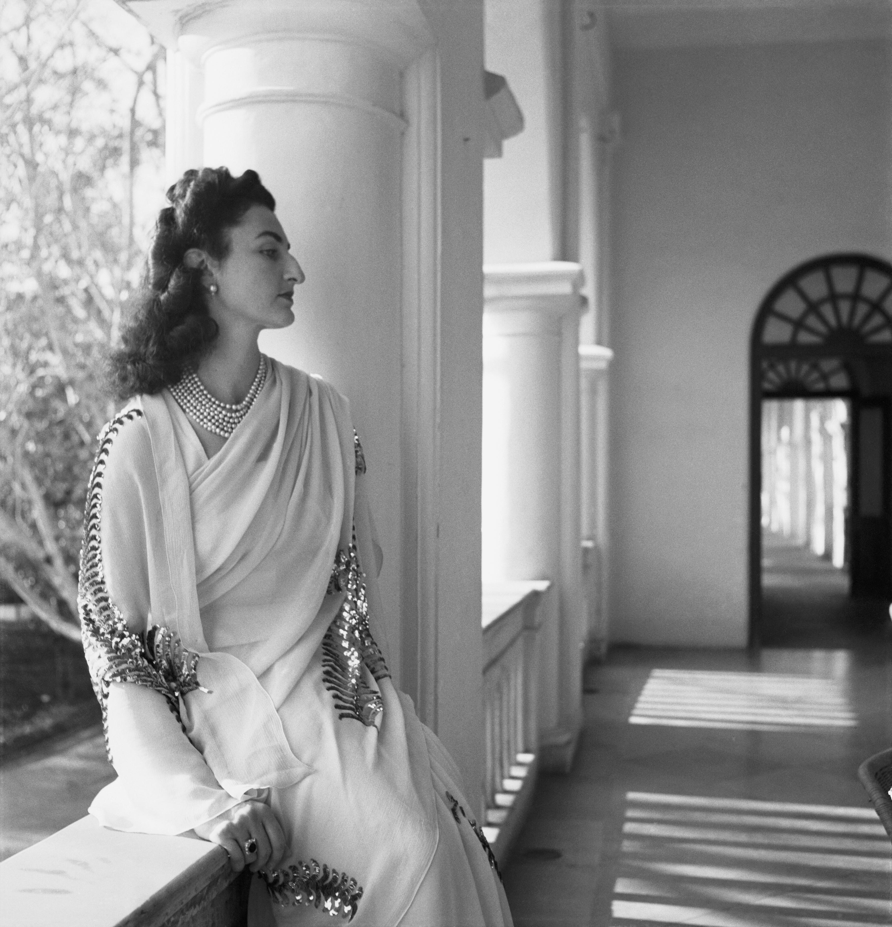 Cecil Beaton Photographs- Political and Military Personalities Political Personalities: Three quarter length portrait of Princess Durri Shehvar Berar, only daughter of the former Sultan of Turkey, photographed wearing a jewelled sari in India.